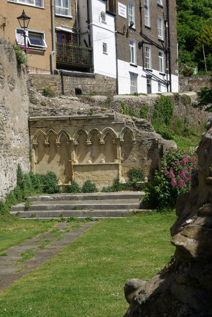 St James' Church ruin, Dover There has been a church on this site since Saxon times, although the building was restored in 1869. It was destroyed by German shells fired from France in the Second World War - after which the ruins were preserved as a commemorative monument to the people of Dover.